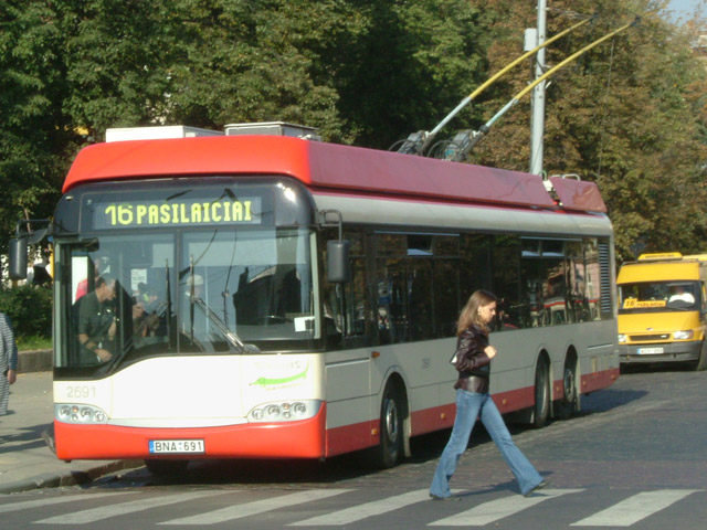 polish Solaris O-Bus in Vilnius, 2006